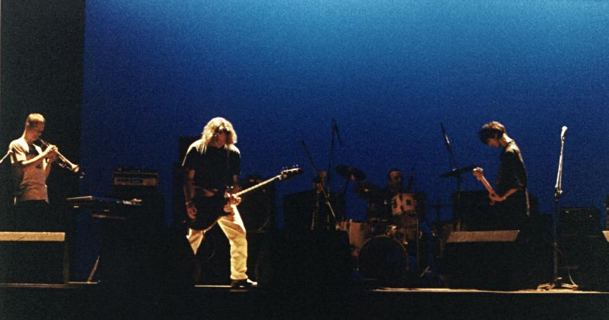 Durutti Column concert Teatro de Gil Vicente, Coimbra, Portugal 1995/4/7 Vini Reilly - guitars and keyboards Bruce Mitchell - drums Tim Kellet - trumpet and keyboards Peter Hook - bass guitars.